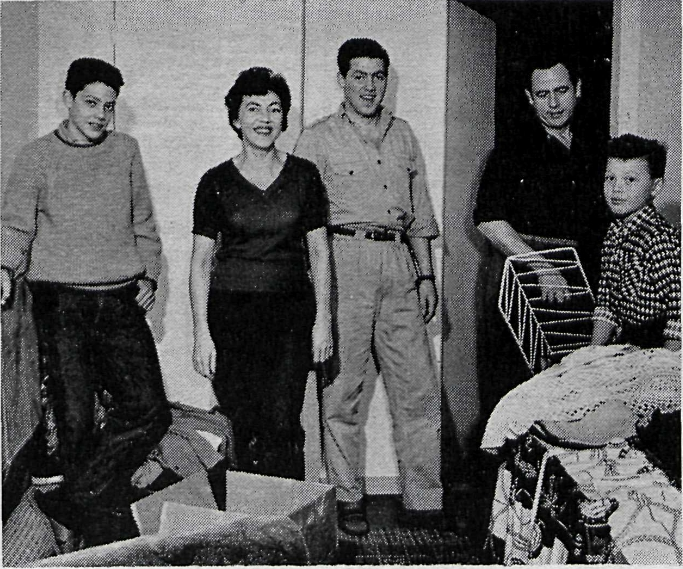 Sæmundsson Family, one of the first icelandic settlers in Argentina.